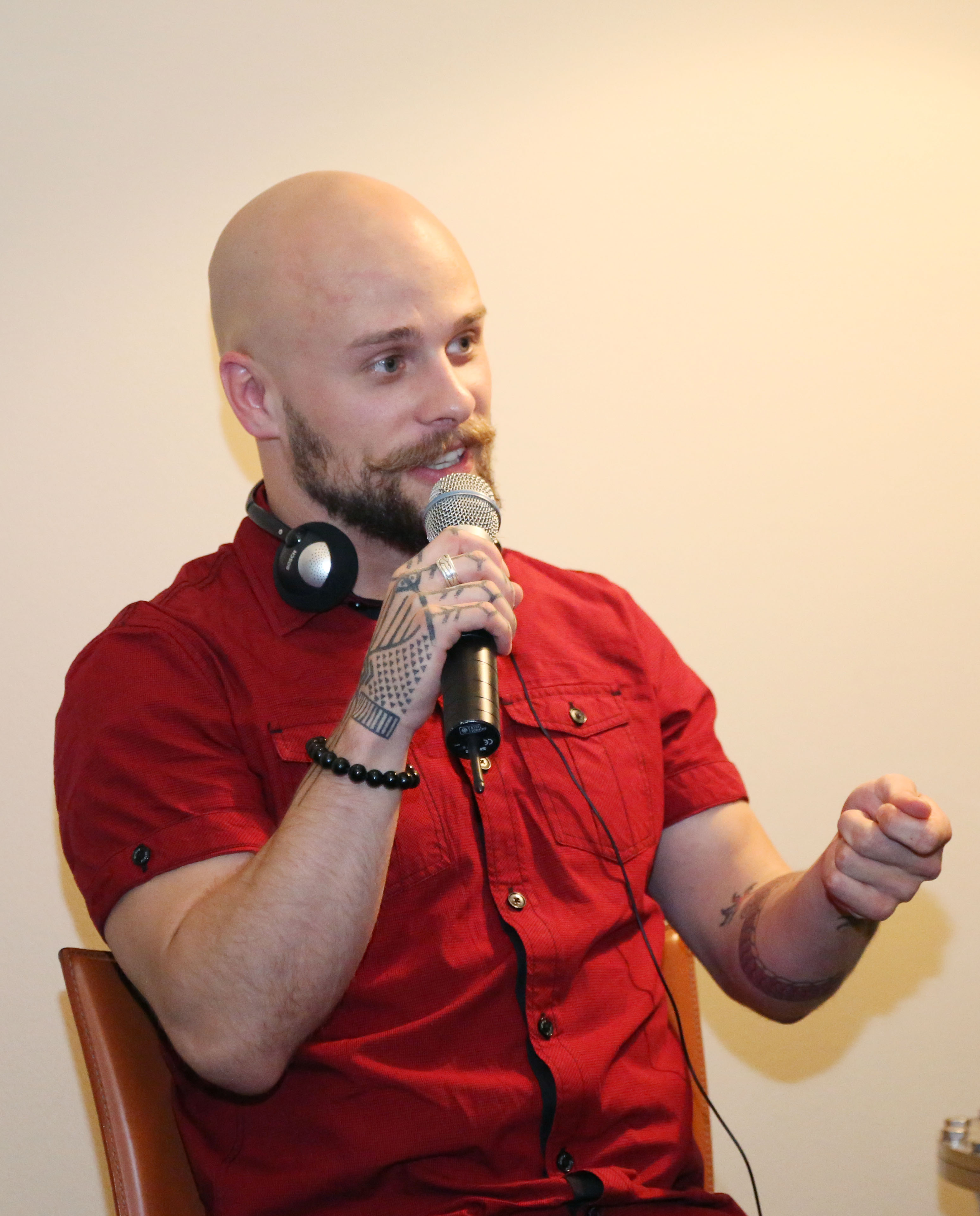 Brandon Bryant at March 2016 in Berlin